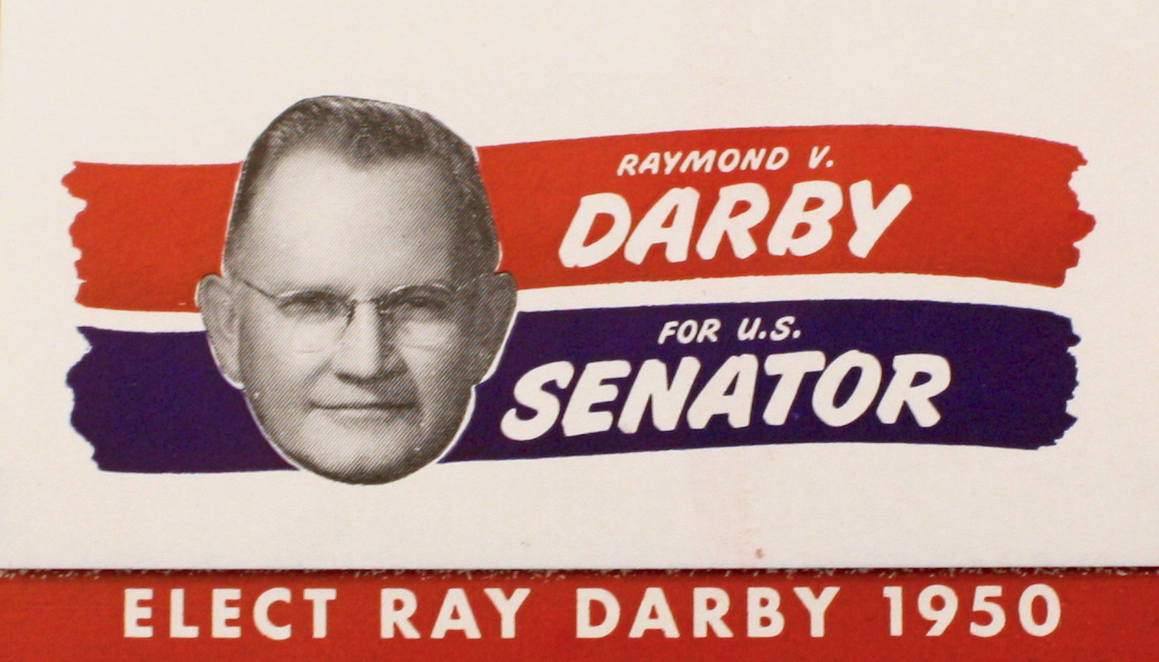 Flyer/handout for Darby for Senate campaign, 1950. Both sides examined, no copyright notice.